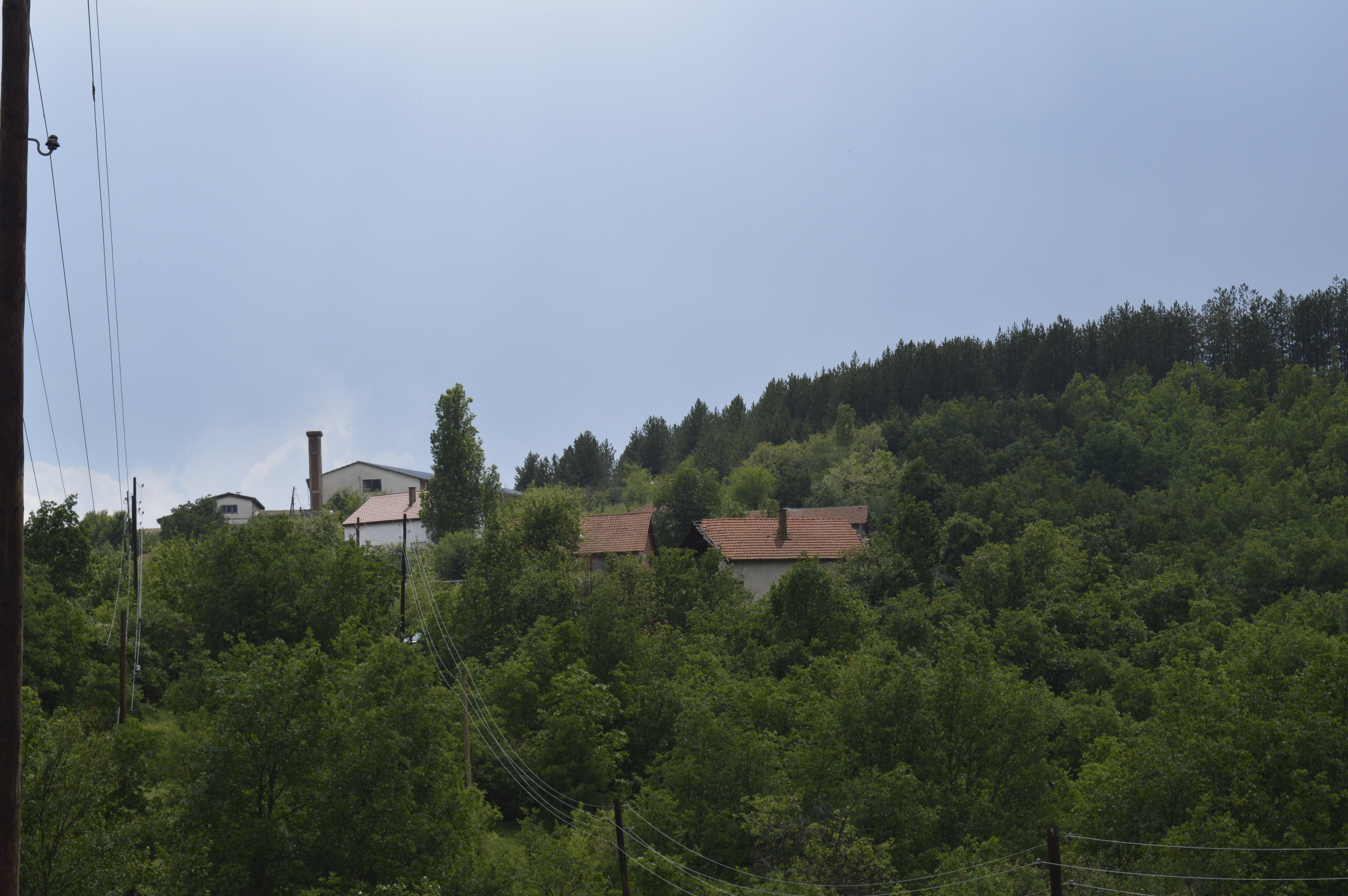 View of the village Bigla